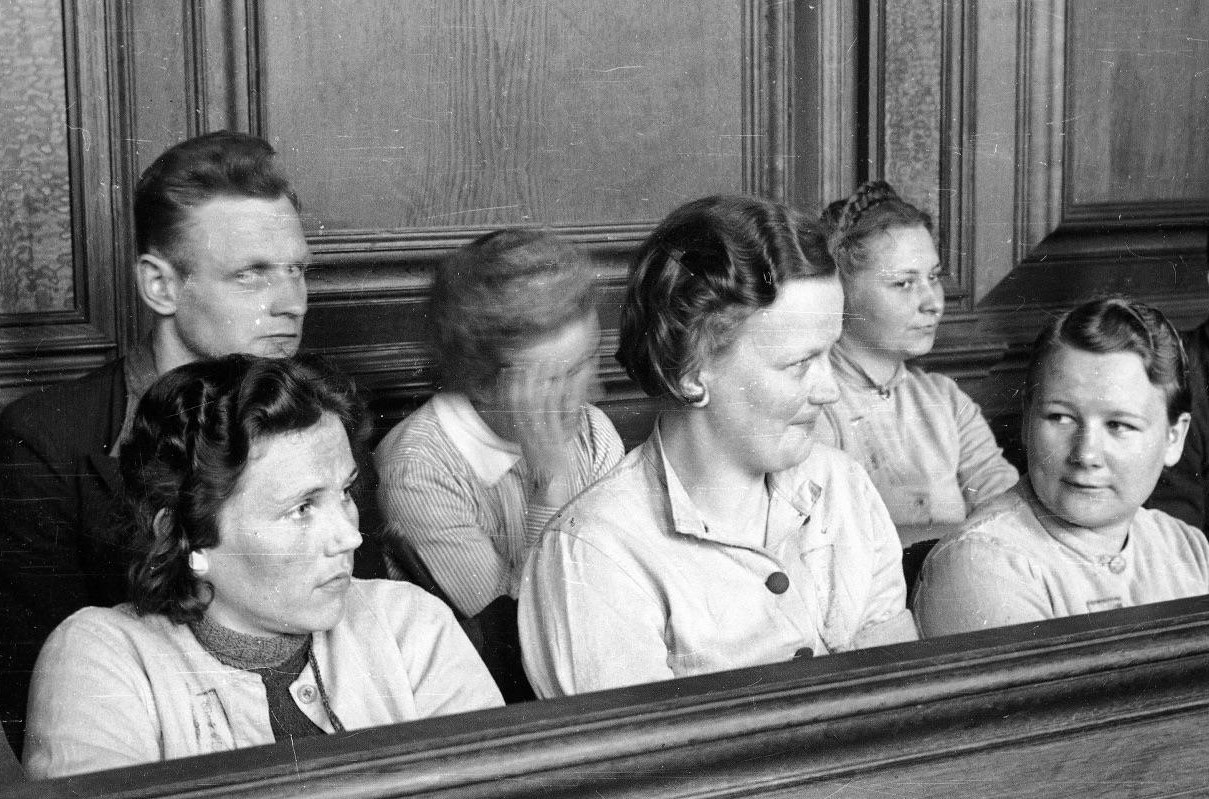 Female guards of the Stutthof Concentration Camp at a Gdańsk war trial held before the Special Law Court between 25th April and 31st May of 1946, Poland First row from left to right: Elisabeth Becker, Gerda Steinhoff (or Herta Bothe, see below), Wanda Klaff Second row: Erna Beilhardt, Jenny Wanda Barkmann